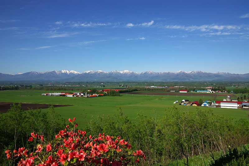 A scene of Tokachi Plain and Hidaka Mountains in Hokkaido, Japan. Looking southwest.